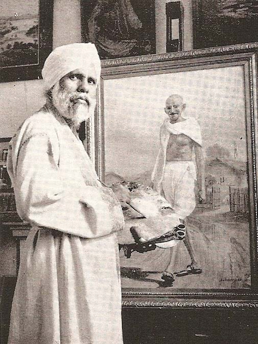 Artist in his studio.